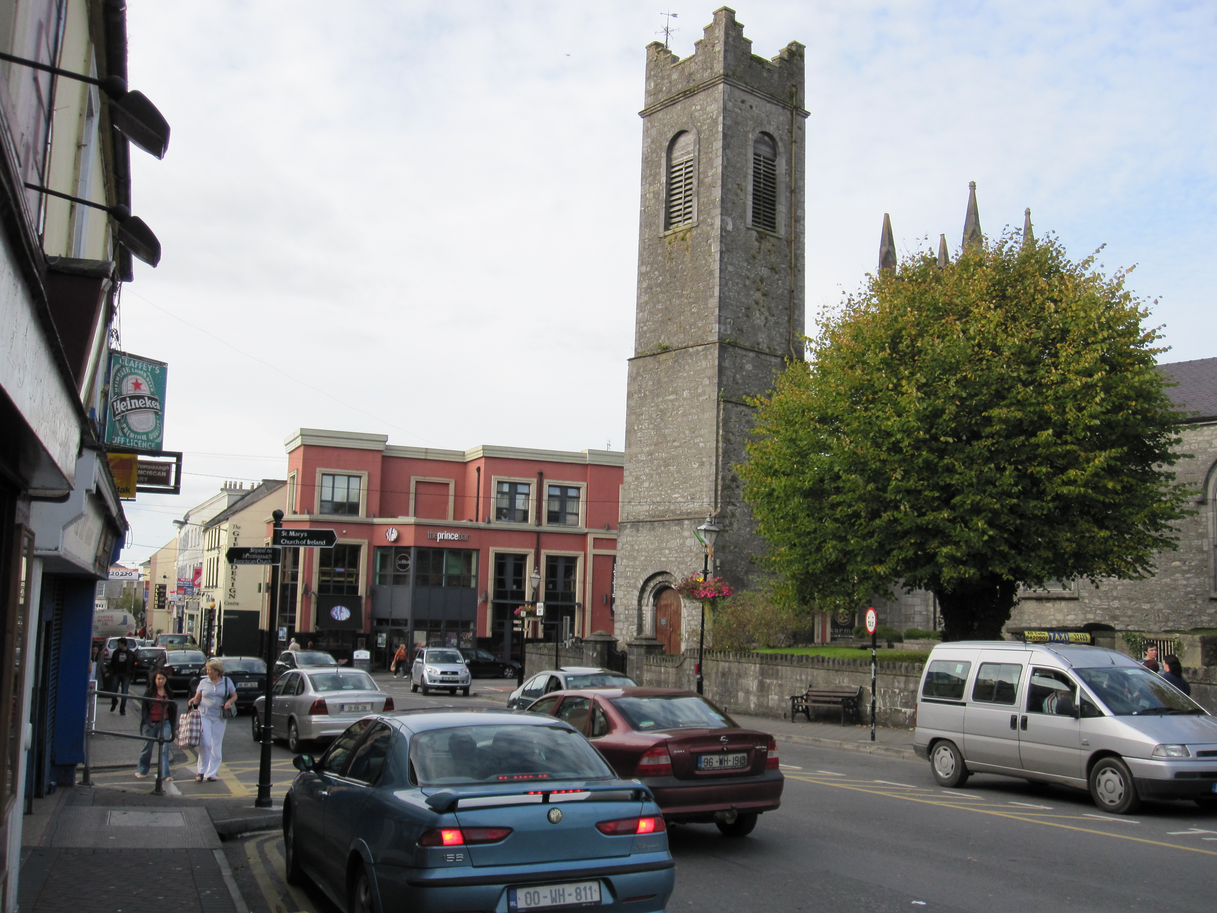 Northwest-facing view of Church street, Athlone